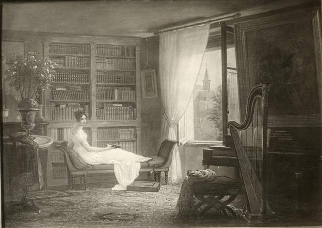 Juliette Récamier, by François-Louis Dejuinne, 1819.